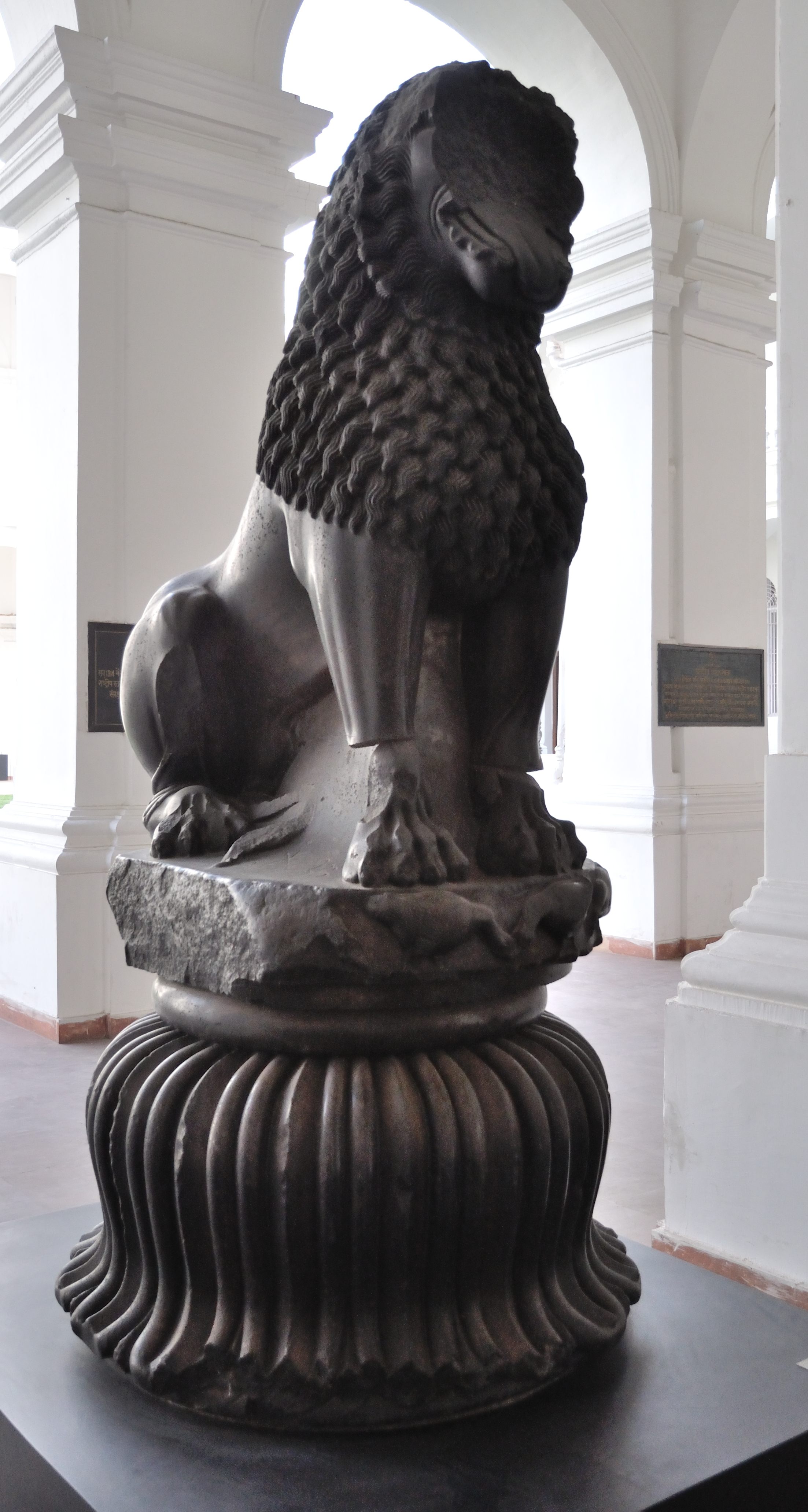 Photographed in Kolkata